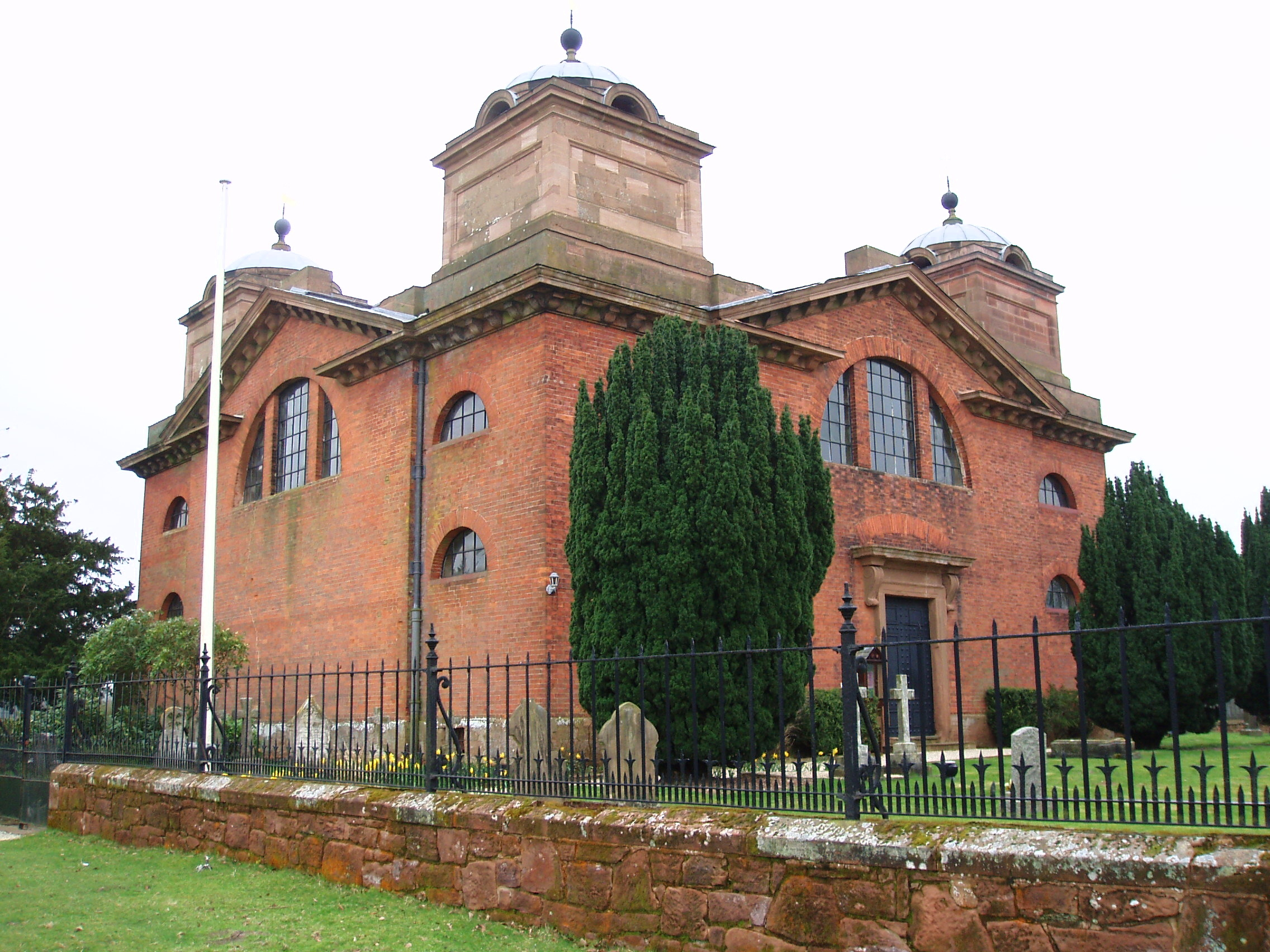 St James' parish church, Great Packington, Warwickshire, England